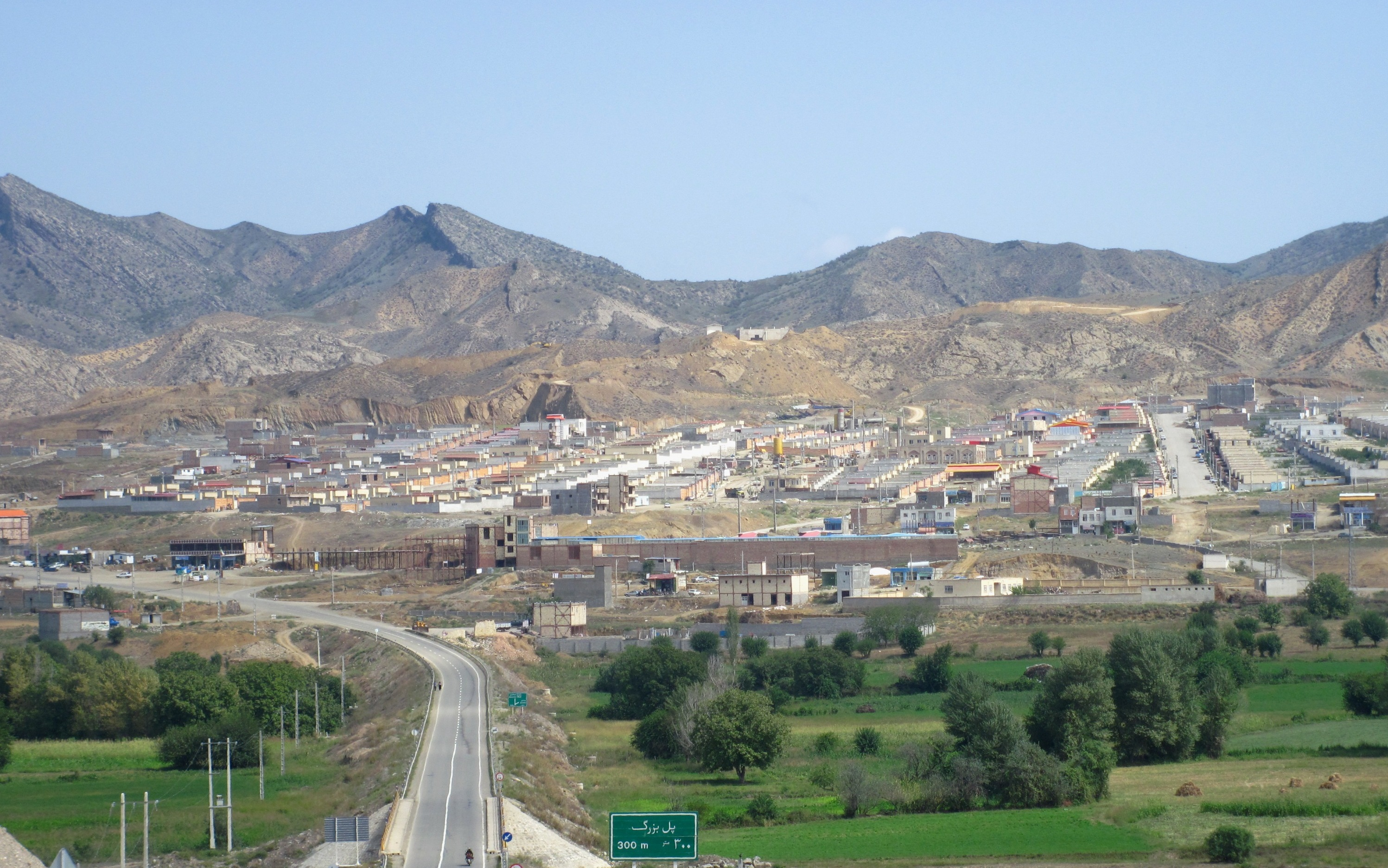 This photo of Janan Lu village was taken by Ravanbakhsh Leysi in October 2011.